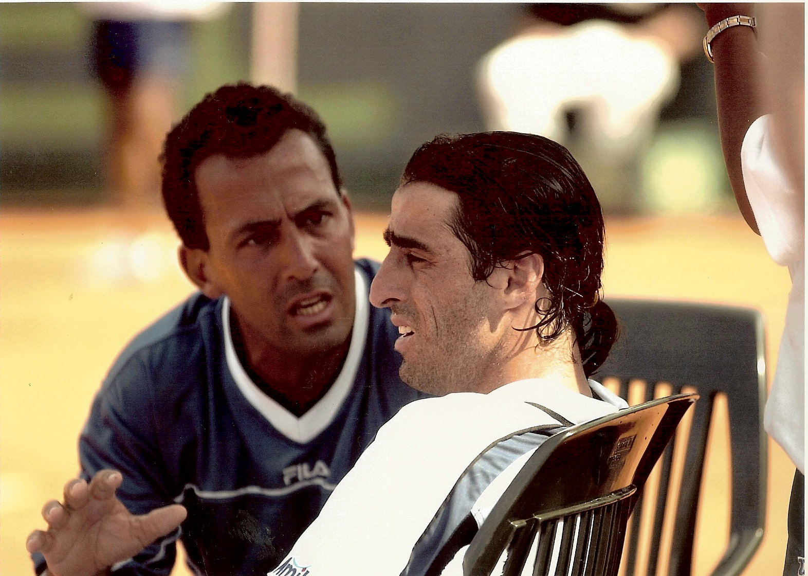 Changeover during Davis Cup Match in RIo de Janeiro